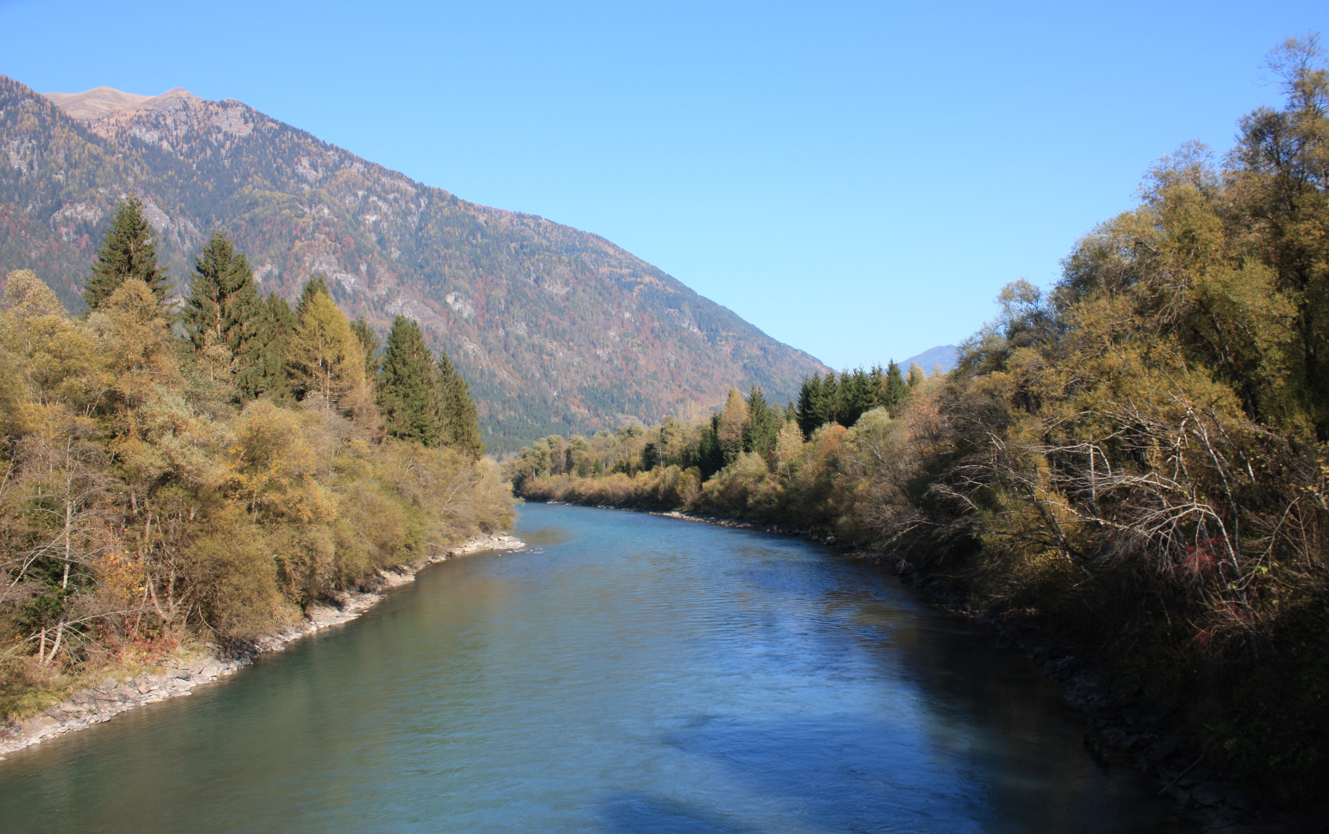 River Drava Locality: Steinfeld Community:Steinfeld